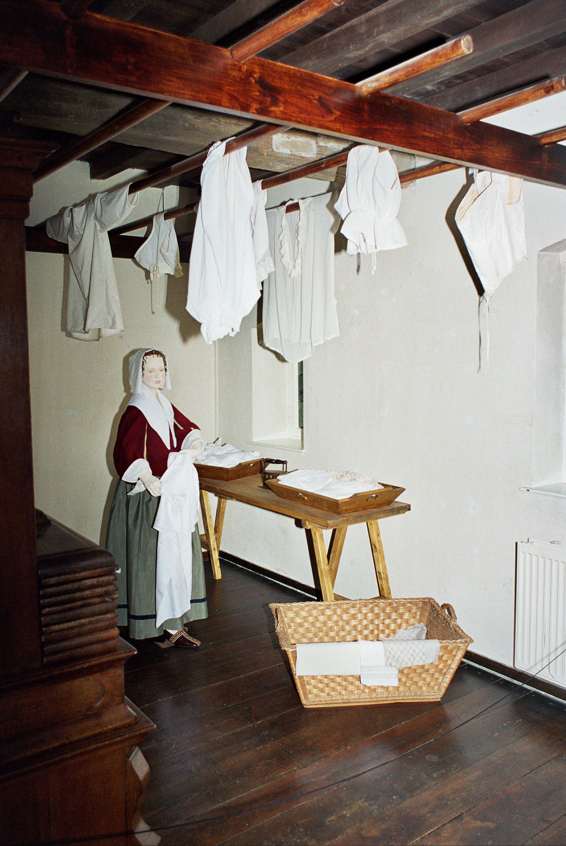 Hoensbroek Castle, interior view of an servant's room